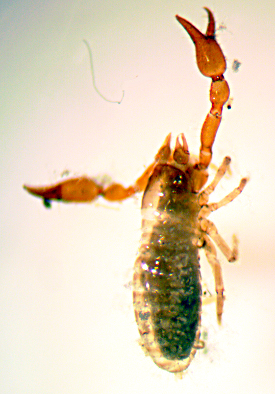 Microbiusm parvulum (Pseudoscorpiones:Neobisiidae)